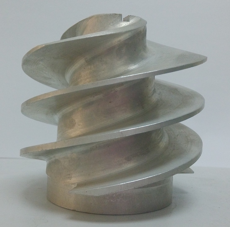 A test pump inducer